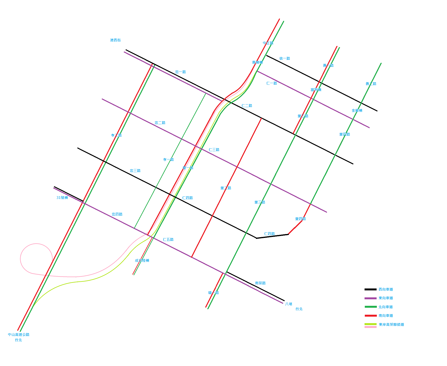 愛三路及周邊道路示意圖